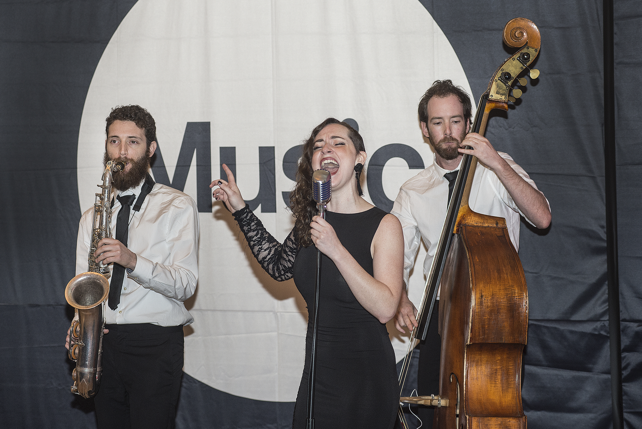 Jazz band Bellatonic perform at Grand Central Terminal's Vanderbilt Hall for the 28th annual Music Under New York auditions. Photo: Metropolitan Transportation Authority / Patrick Cashin